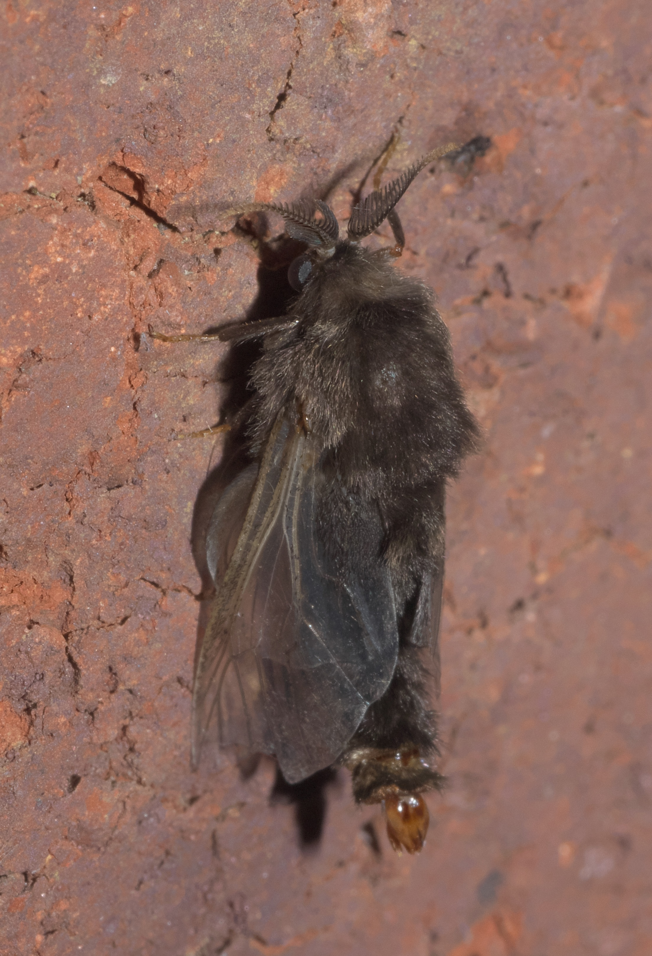 Thyridopteryx ephemeraeformis, evergreen bagworm, ID Confidence: 90